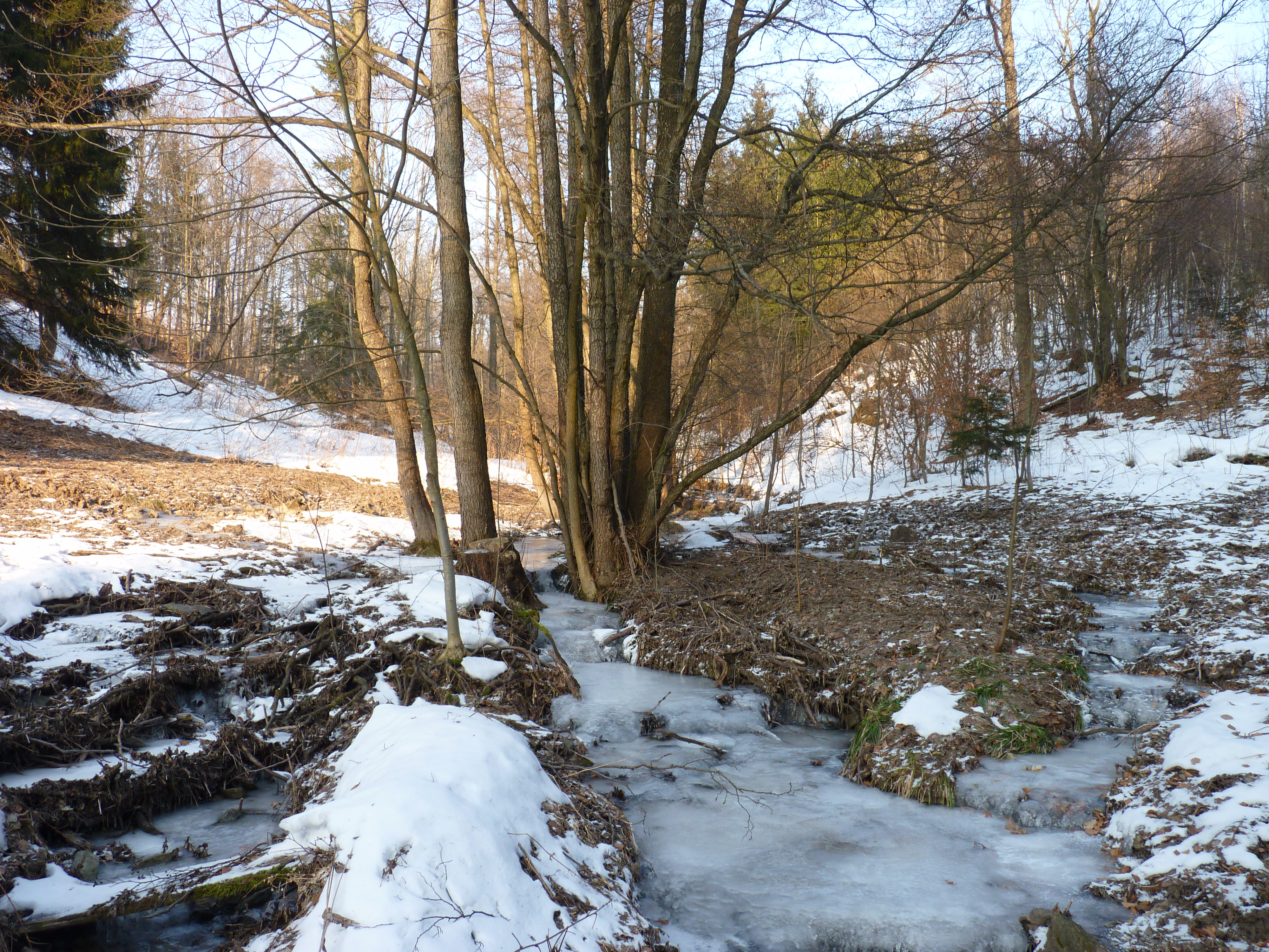 Nature reserve Údolí Záhorského potoka